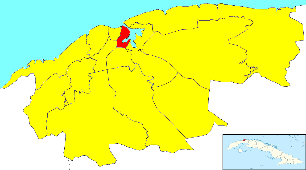 A map of the municipality of Habana Vieja (shown in red) within the city of Havana (yellow). The little Cuban map in the corner shows Havana (dark red) within the island.